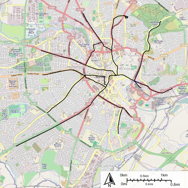 Norwich Electric Tramways Legend: *━━━ Primary lines *━━━ Secondary lines *━━━ Tertiary lines